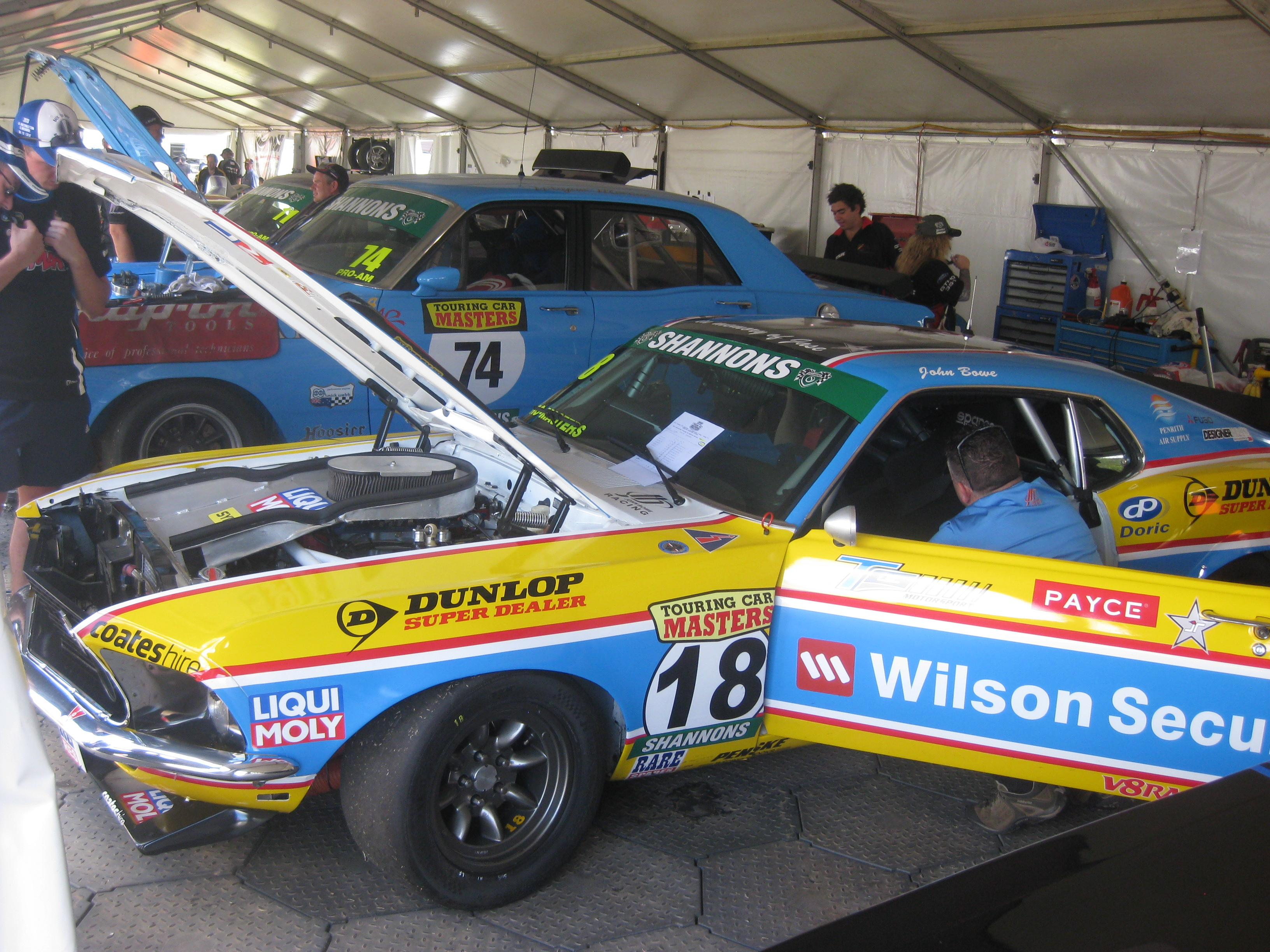 The 1969 Ford Mustang of John Bowe at the Adelaide round of the 2015 Touring Car Masters